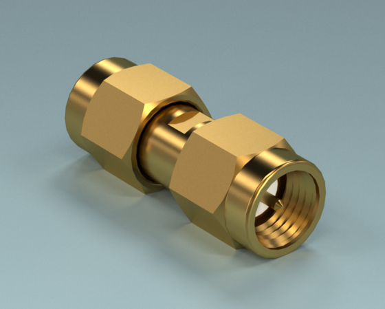 SMA connector